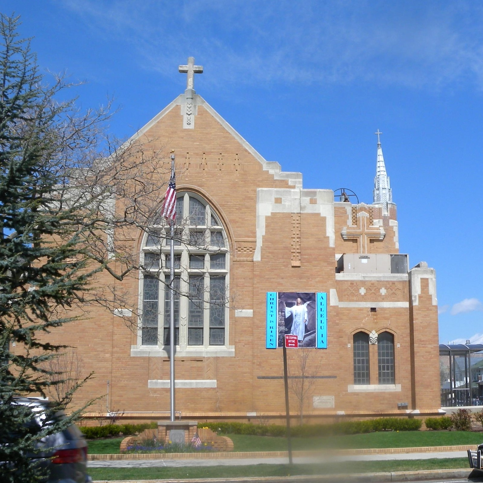 Looking north across Rockaway Beach Boulevard at church on Beach 129th Street, on a sunny, windy midday.